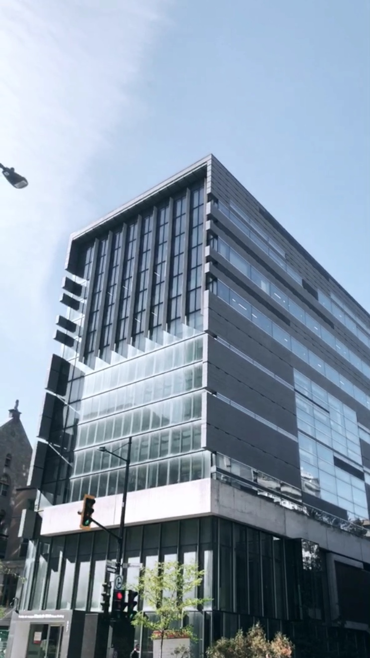 Photograph of the Elizabeth Wirth Music Building on Sherbrooke Street in Montreal, Quebec.